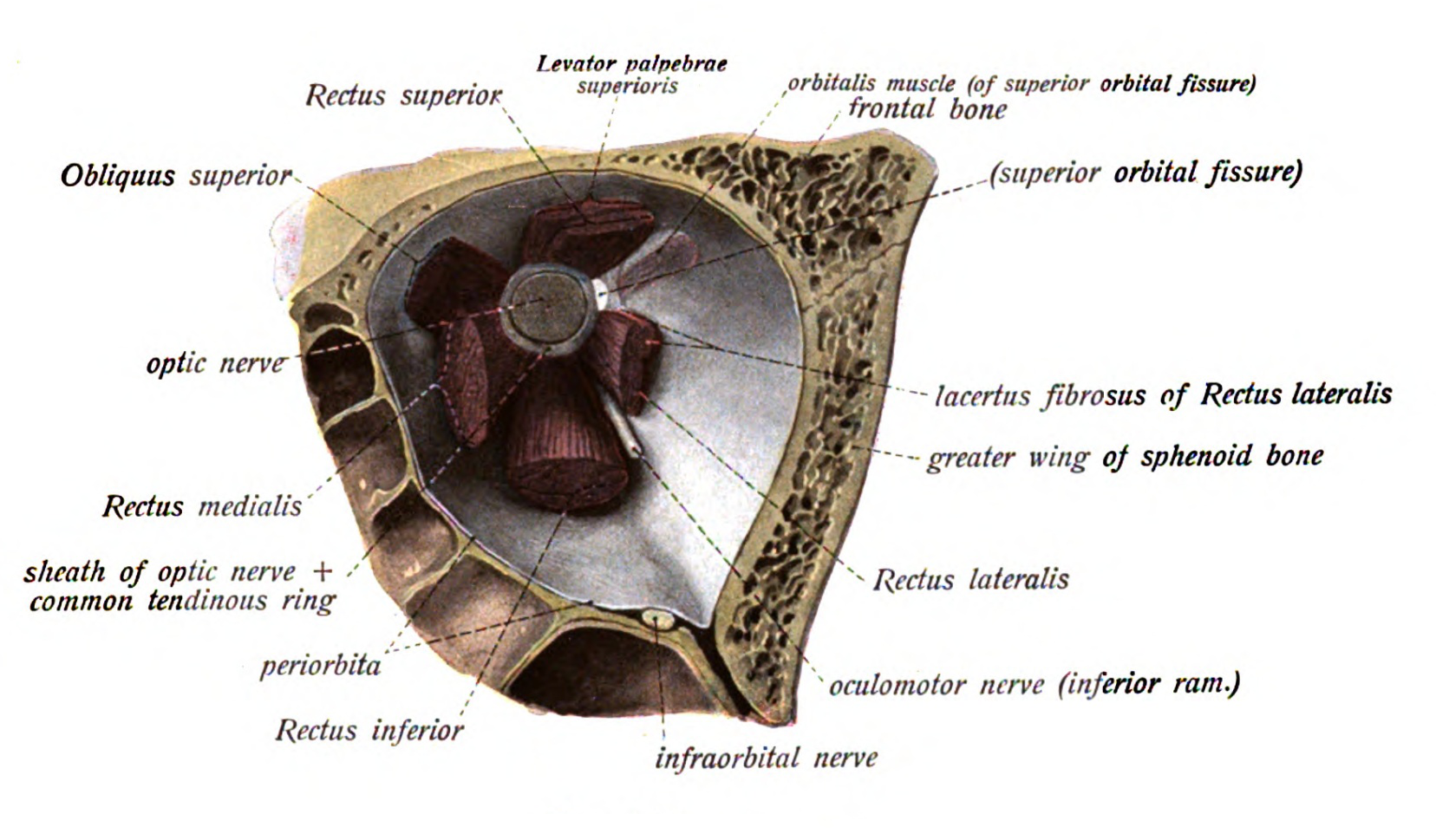 An anatomical illustration from the 1909 edition of Sobotta's Anatomy